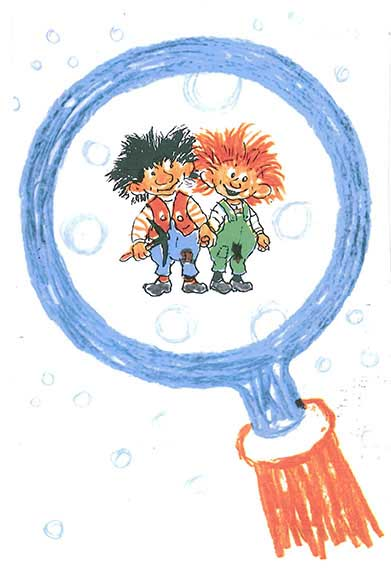 Karius and Baktus, created and drawn by Thorbjørn Egner. Probably from the version of the book from 1958. In the book from 1949 both had red hair. Please credit the artwork as Drawing: Thorbjørn Egner.